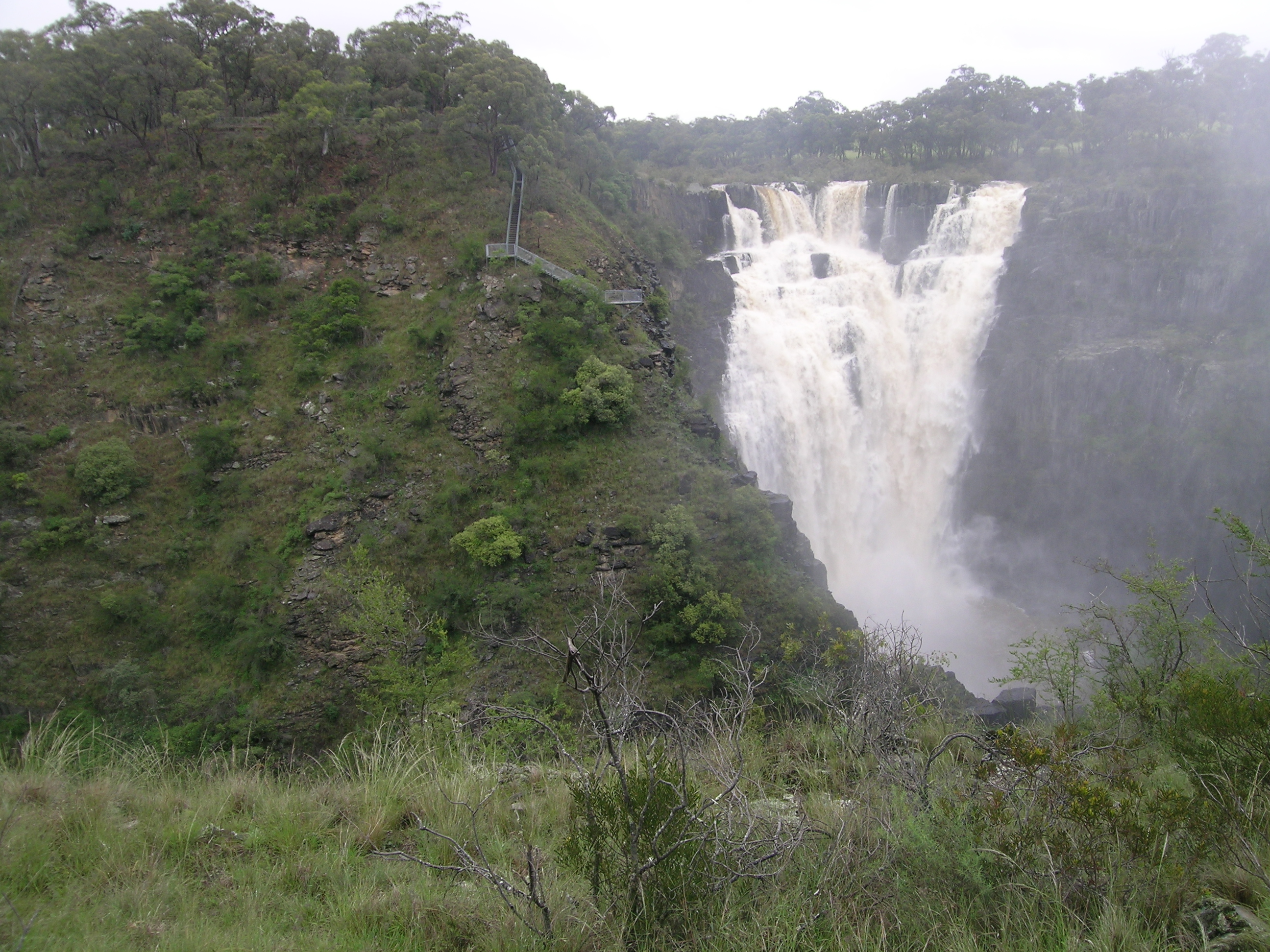 Apsley Falls, Walcha, NSW showing the modern stairway.